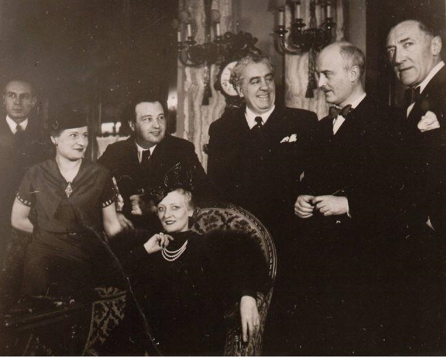 At the première of L'Aiglon by Arthur Honegger and Jacques Ibert, Monte-Carlo, 13 March 1937:Fanny Heldy (1888-1973): seatedArthur Honegger (1892-1955): standing third from leftJacques Ibert (1890-1962): standing second from rightVanni-Marcoux (1877-1962):standing first from right